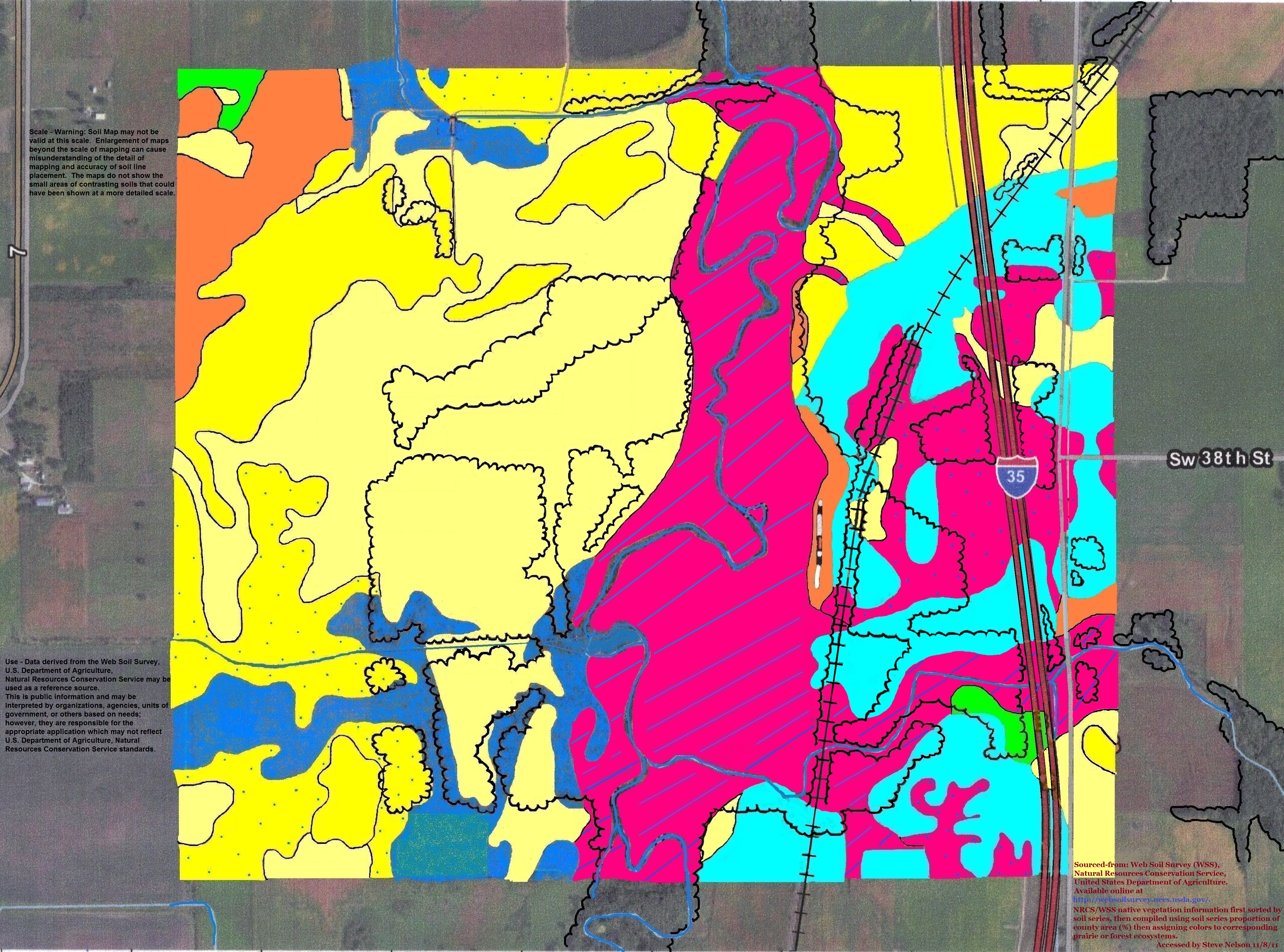 Colored map shows native vegetation in the area of Minnesota DNR's Somerset Wildlife Management Area (WMA), located southwest of Owatonna in Steele County, Minnesota.